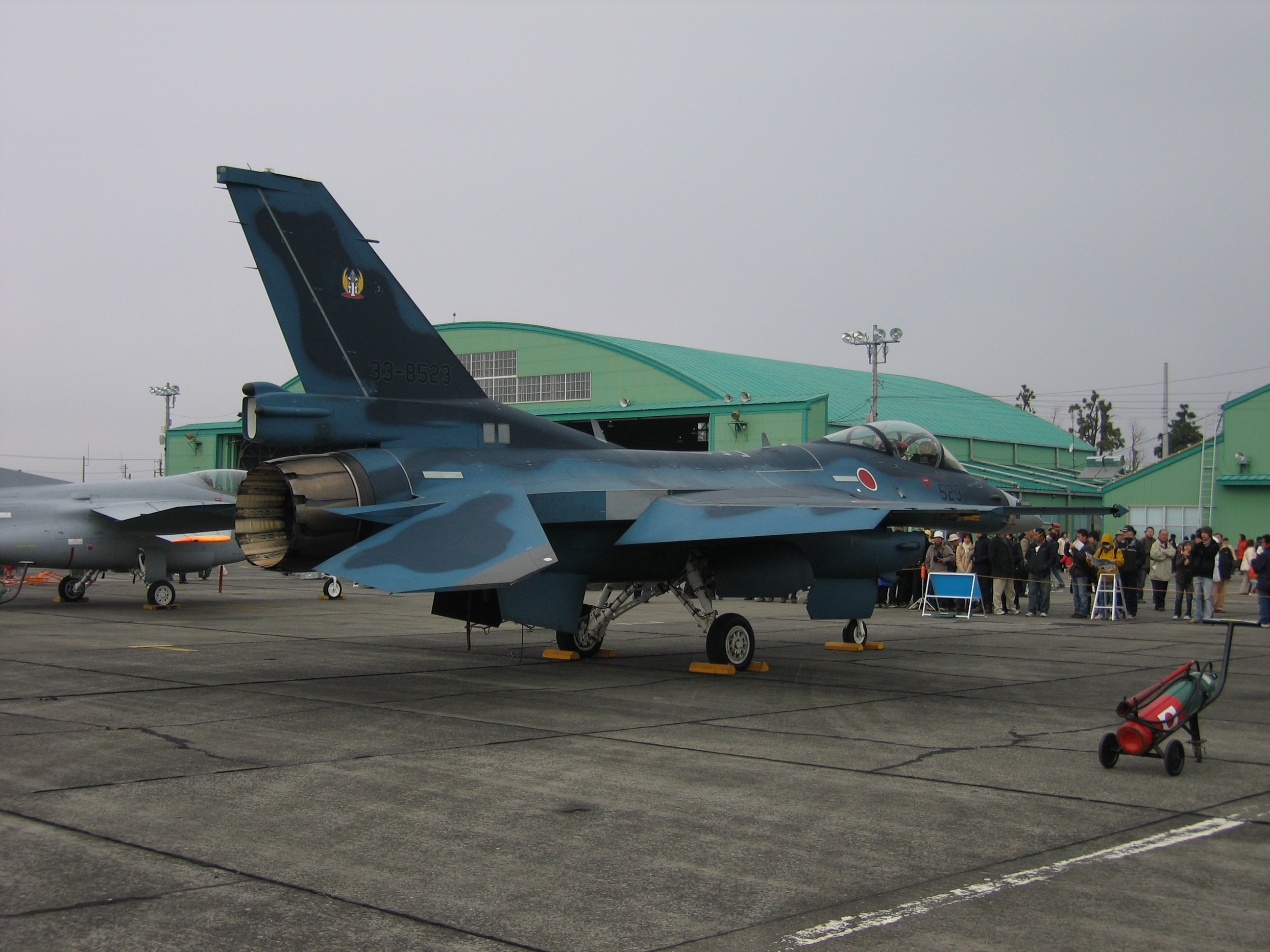 Photo by Yosemite A Mitsubishi F-2 Fighter in the Japan Self-Defense Forces.